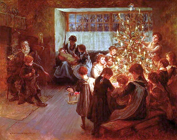 The Christmas Tree